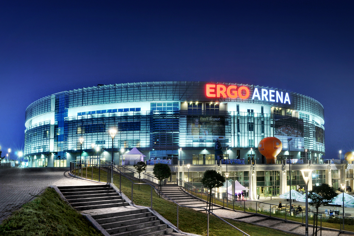 sports and show hall Ergo Arena in Gdansk and Sopot, Poland